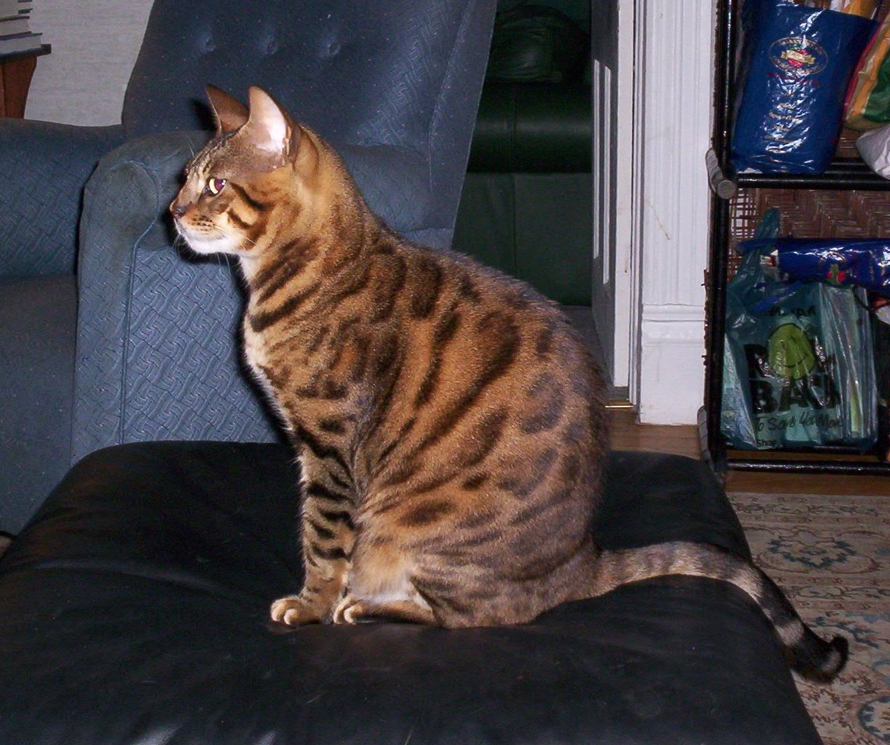 Bengal Cat